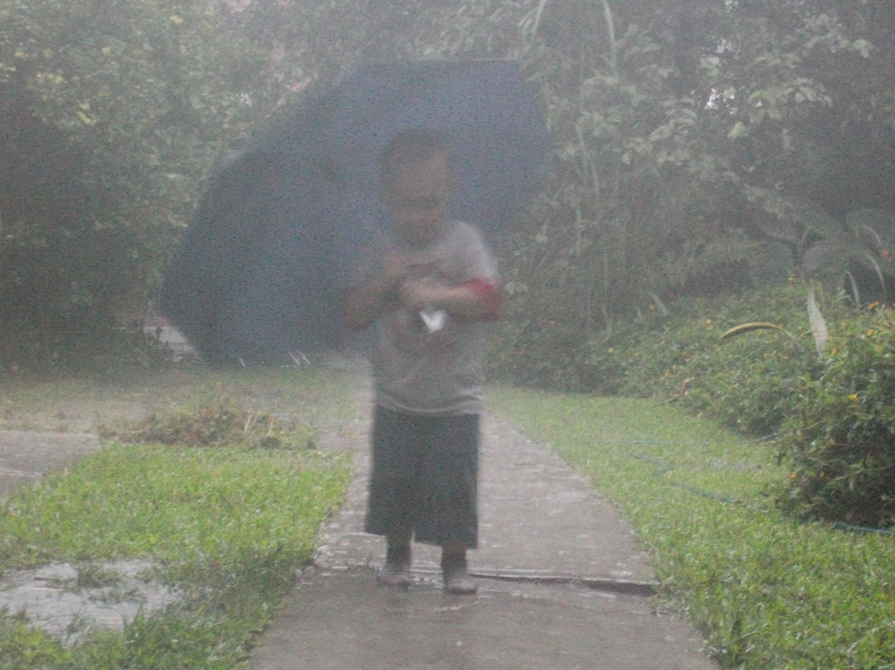 Boy playing in the rain.